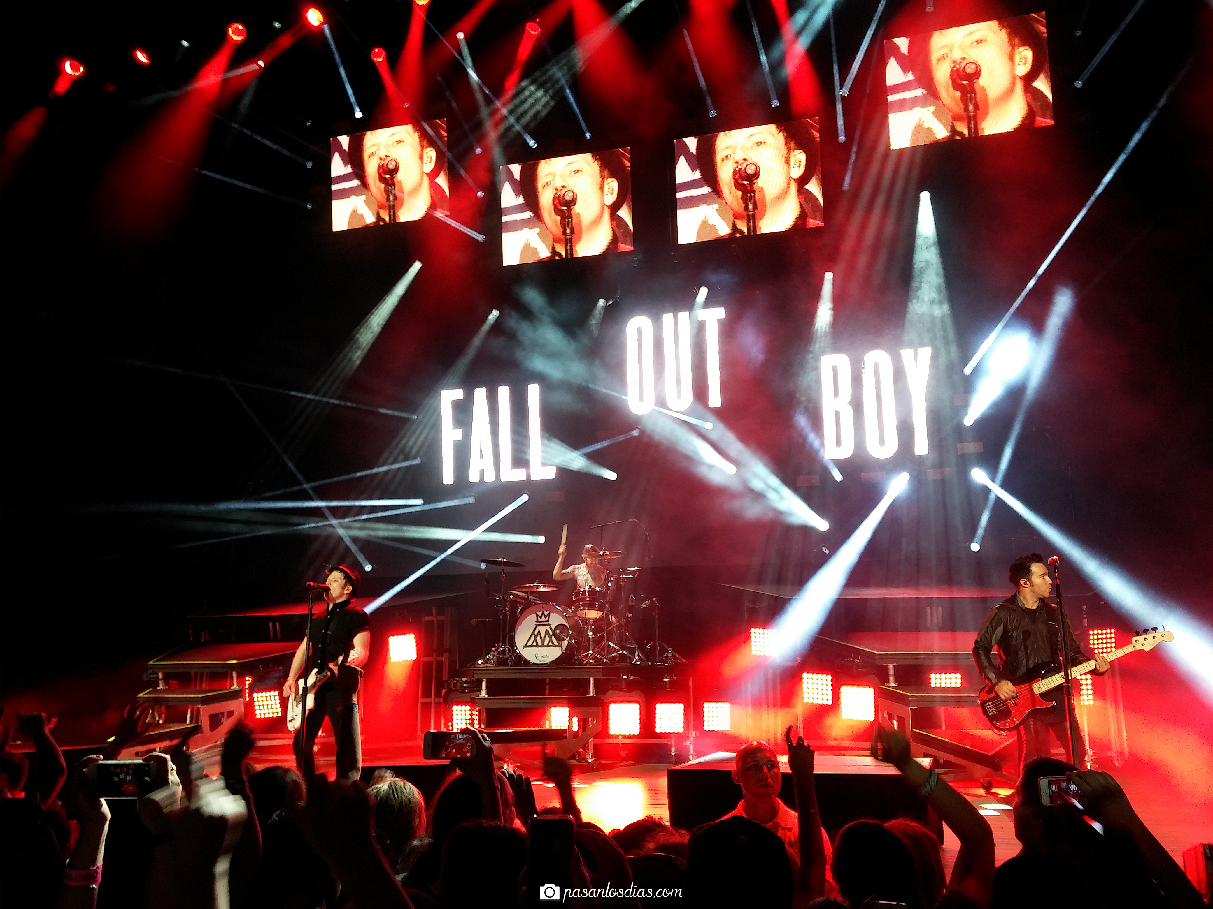 American pop rock band Fall Out Boy live in concert in 2014